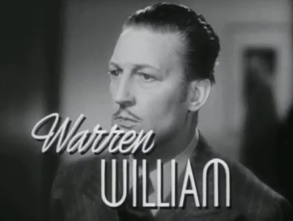 Warren William in The First Hundred Years, film by Richard Thorpe (1938)